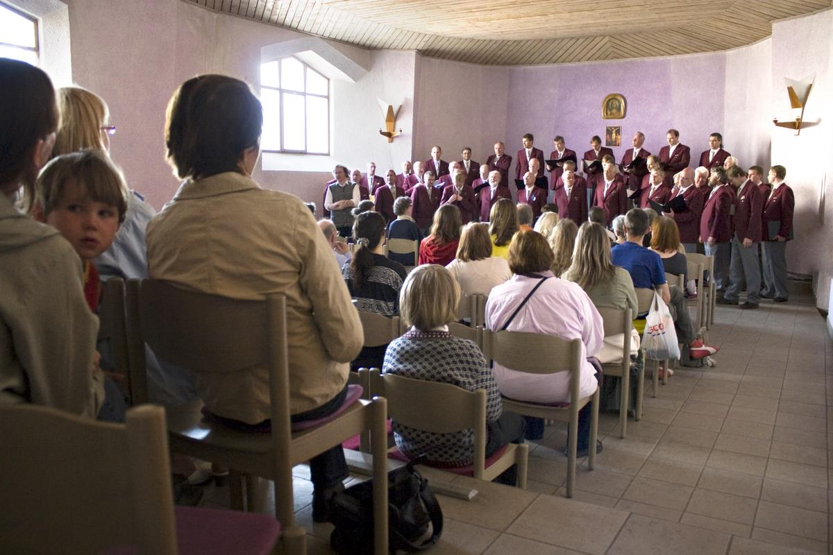 Estonian male choir of engineers Inseneride Meeskoor singing in the Blue House in Prague.